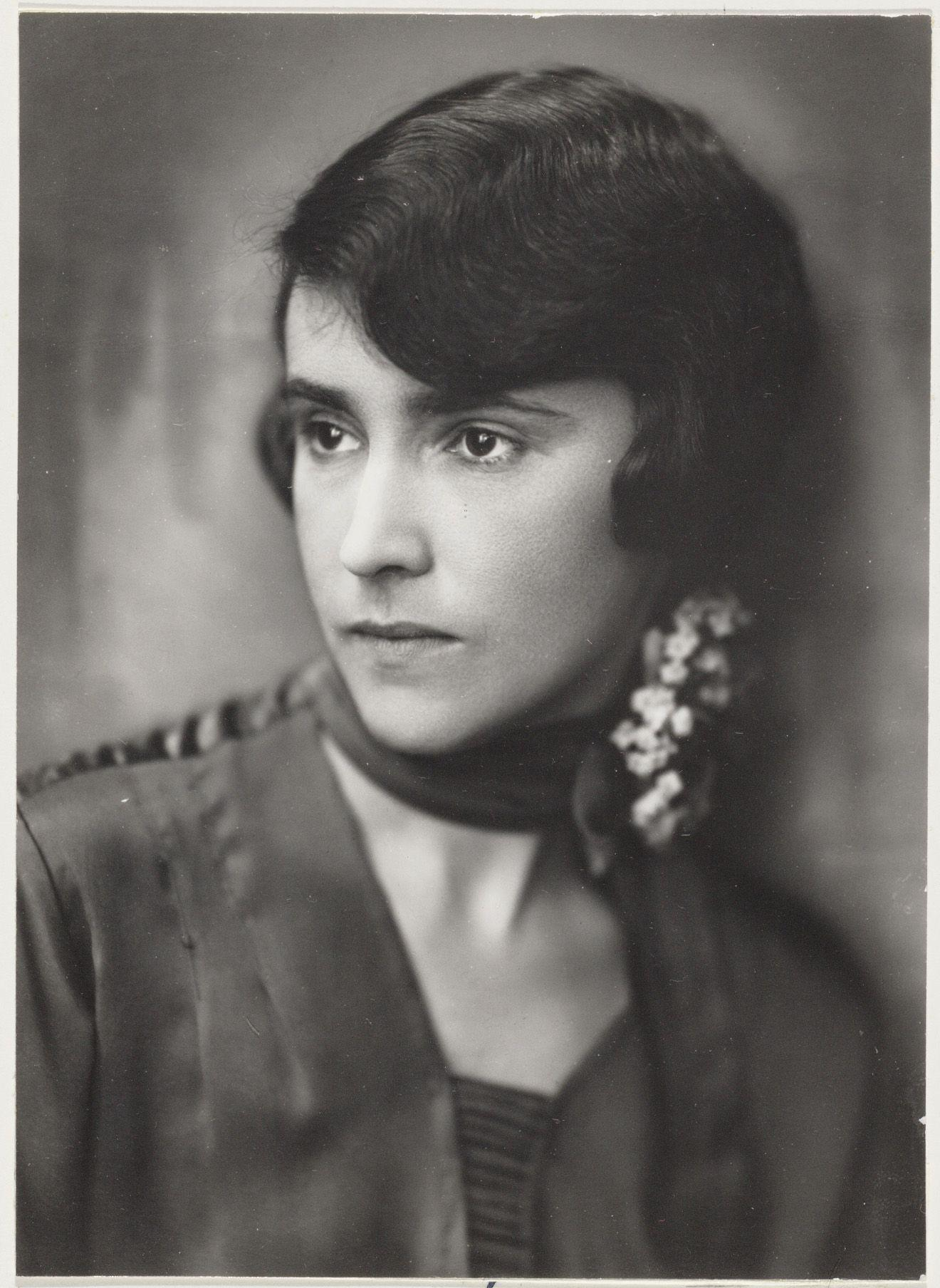 Photograph of Annie Roland Holst-de Meester by Jacob Merkelbach (1877-1942)